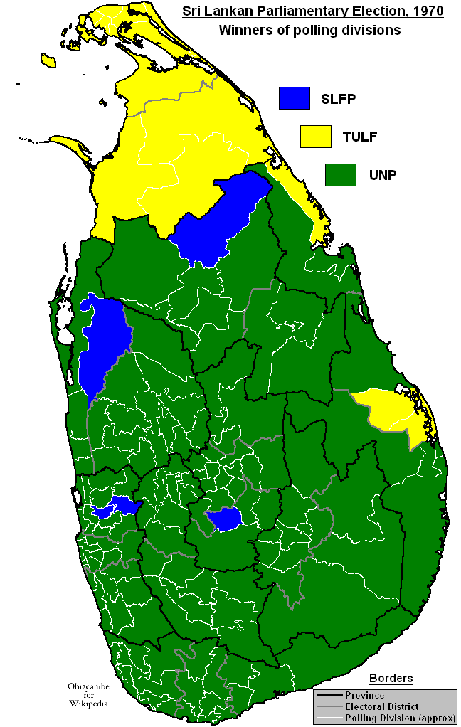 Map showing winners of polling divisions in the Sri Lankan parliamentary election of 1977.